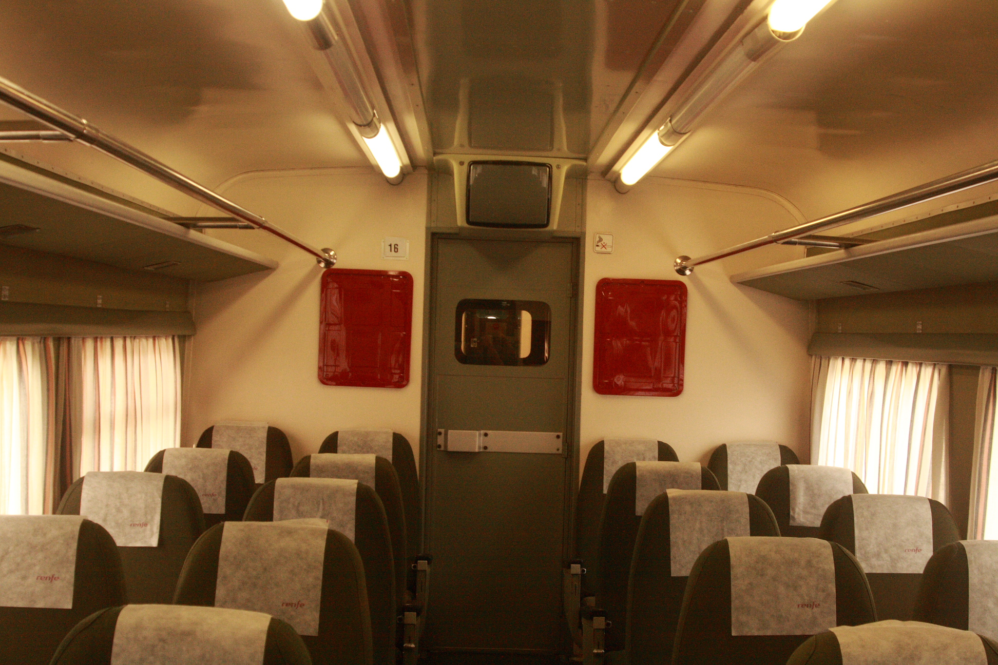 Talgo III Interior